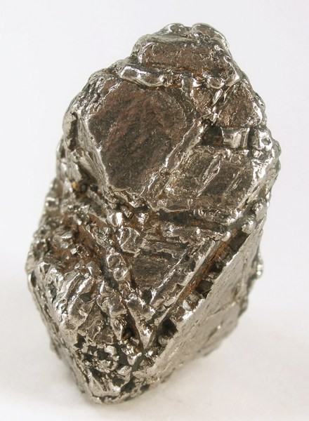 Iron (Var.: Kamacite) Locality: Nantan meteorites (Nandan meteorites), Lihu - Yaochai area, Nandan County, Hechi Prefecture, Guangxi Zhuang Autonomous Region, China (Locality at ) Size: 4.8 x 3.0 x 2.8 cm. From the accompanying literature: “Nantan iron meteorites represent one of the rare witnessed iron meteorite falls in the world. The fall was vividly recorded (in Chinese records): ‘During summertime in May of Emperor Zhengde’s 11th year, stars fell from the northwest direction, five- to six-fold long, waving like snakes and dragons. They were bright as lightning and disappeared in seconds.’ ‘These records show the meteorite to have fallen in the year 1516 AD. The fall site was not discovered until much later, in 1958. The specimens have a coarse octahedral structure, and contain 92.35% iron and 6.96% nickel, belonging to IIICD classification of Wasson et al (1980’s).’” This bright, very interestingly shaped specimen weighs 138 grams.